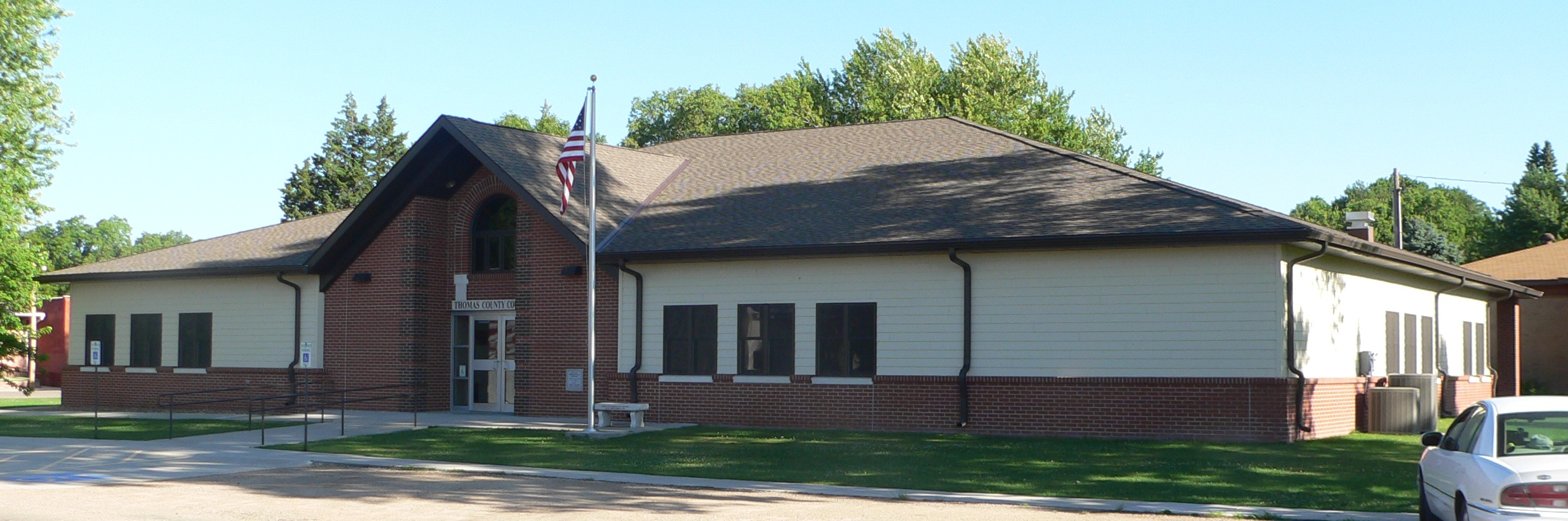 Thomas County courthouse in Thedford, Nebraska; seen from the southeast.